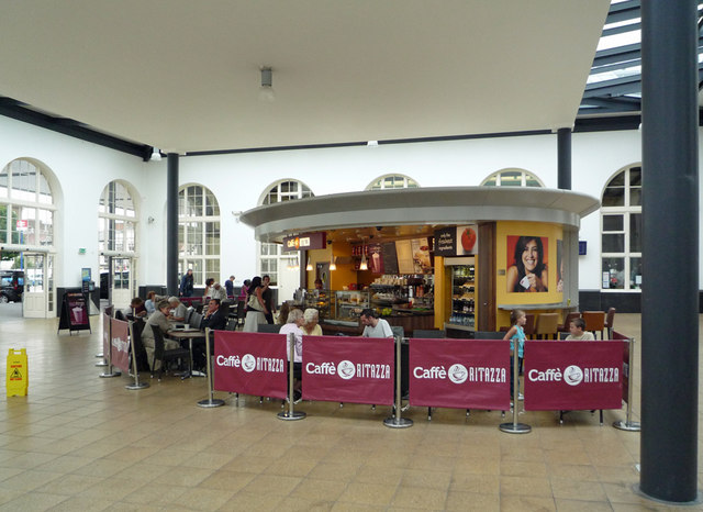 Cafè Ritazza, Paragon Station, Hull Refreshment facility in the Hull Paragon Transport Interchange.